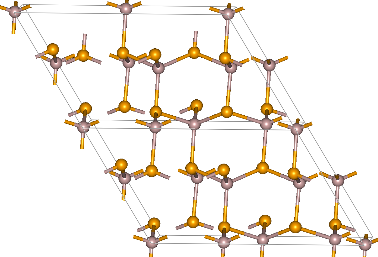 Al2Se3 structure. Yellow atoms are Se. Journal = ACTA CRYSTALLOGRAPHICA Year = 1966 Volume = 20 Page = 617-619 Title = The Crystal Structure of Al2Se3 Authors = Steigmann G.A., Goodyear J.